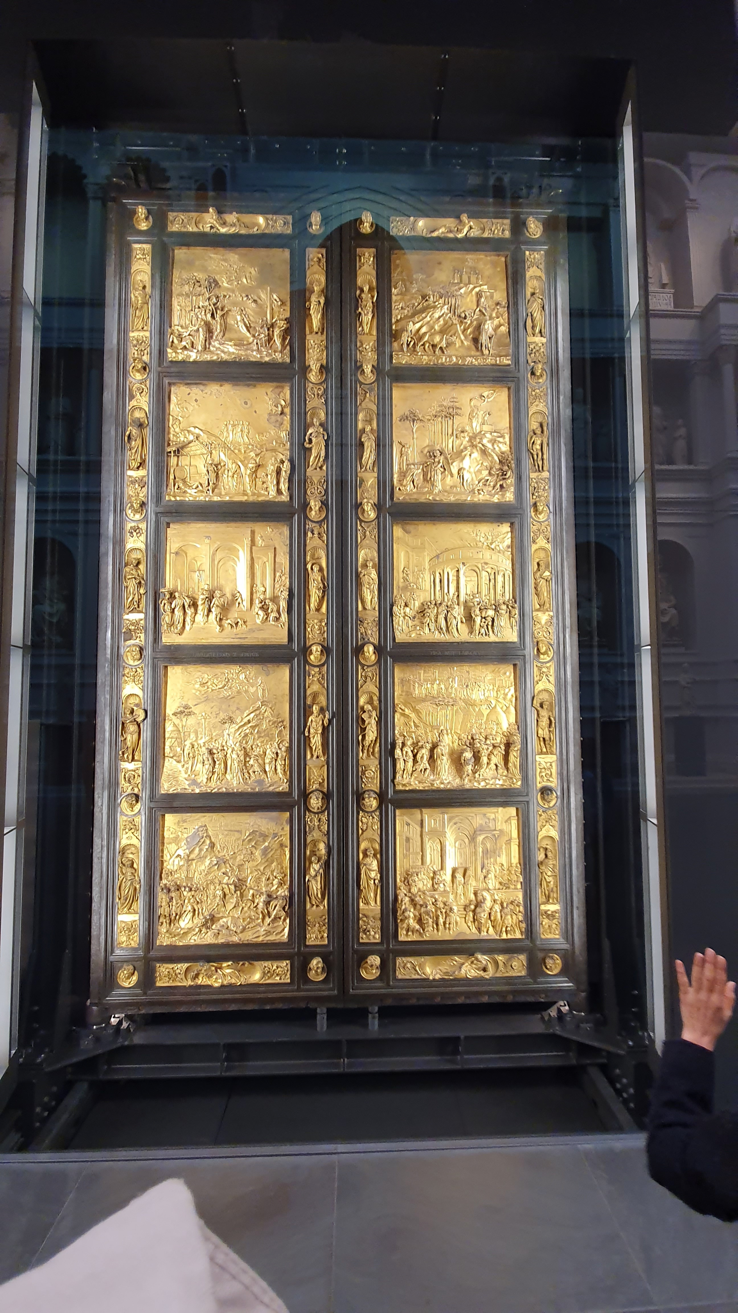 The Gates of Paradise by Lorenzo Ghiberti